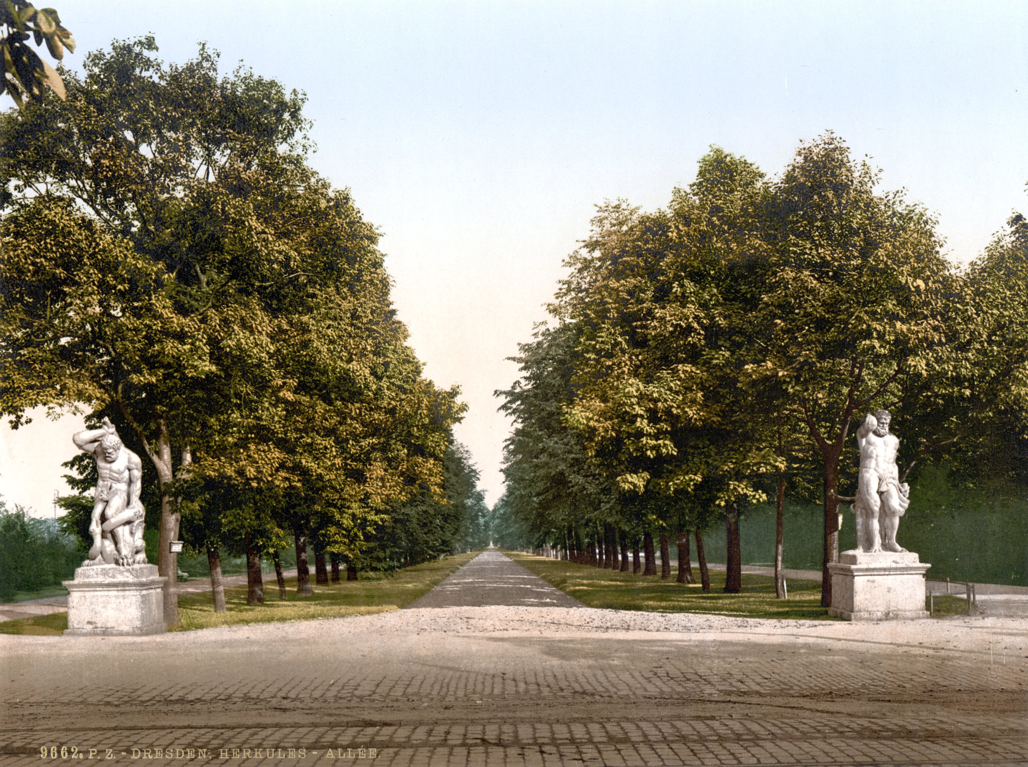 Dresden (Saxony, Germany) - Großer Garten - Herkulesallee